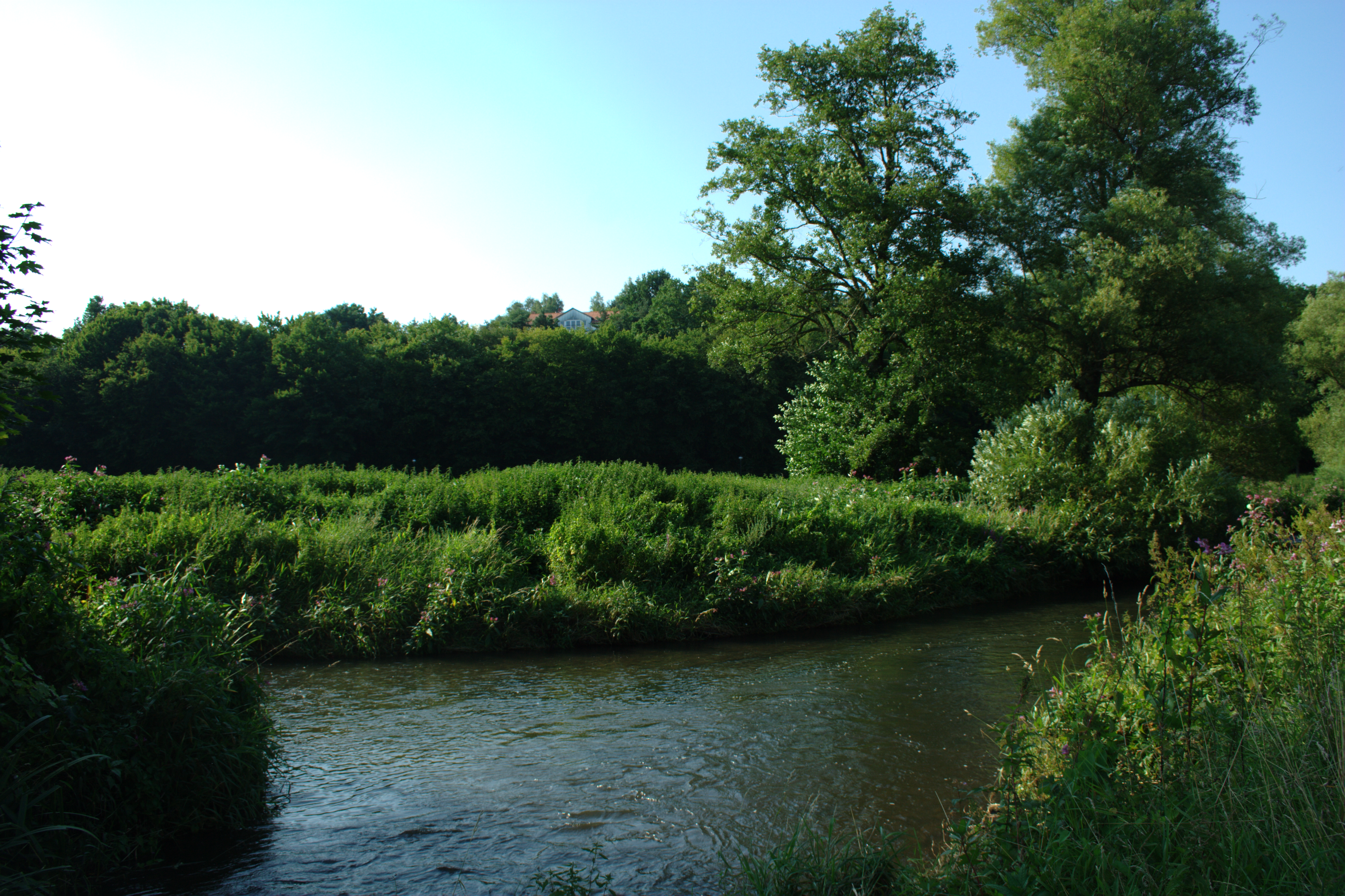 Confluence of the Altefeld (front) and Lauter Rivers (left) in Bad Salzschlirf creating the Schlitz River (right)